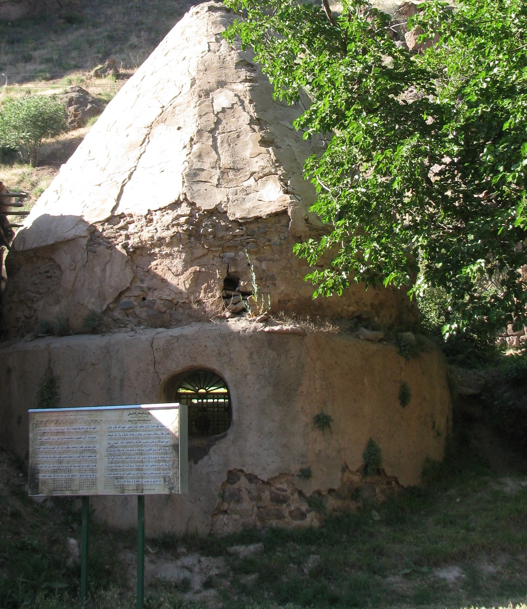 Tomb of Imamzadeh Haroun in Taleghan, Alborz, Iran.